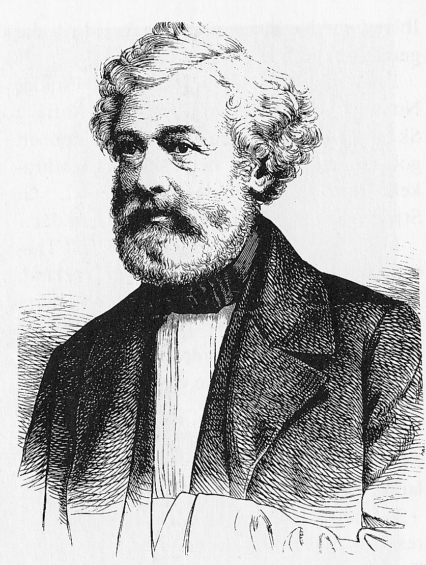 Edward Nonnen born June, 30, 1804 in Hamburg, died March 2, 1862. Agronomist